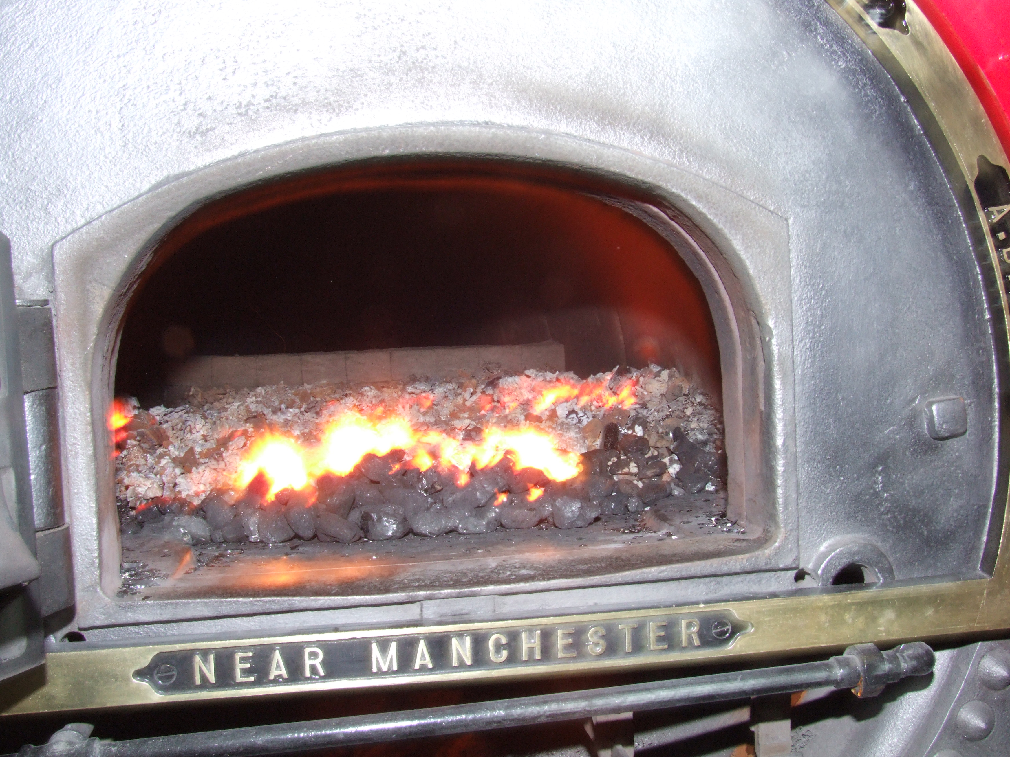 Queen Street Mill in Harle Syke, a suburb to the north-east of Burnley, Lancashire, was built in 1894 for the Queen Street Manufacturing Company. It closed on 12 March 1982 and was mothballed, but was subsequently taken over by Burnley Borough Council and used as a museum. In the 1990s ownership passed to Lancashire Museums. Unique in being the world's only surviving steam-driven weaving shed. Steam was raised in two Lancashire boilers built by Tinker Shenton of Hyde. The first was installed in 1895, and the second in 1901 and it is this boiler that is in action. These twin furnace boilers that contained 5000 gallons or 22 cubic metres of water were fired by coal. There was room for 12 tonnes in the boiler room.